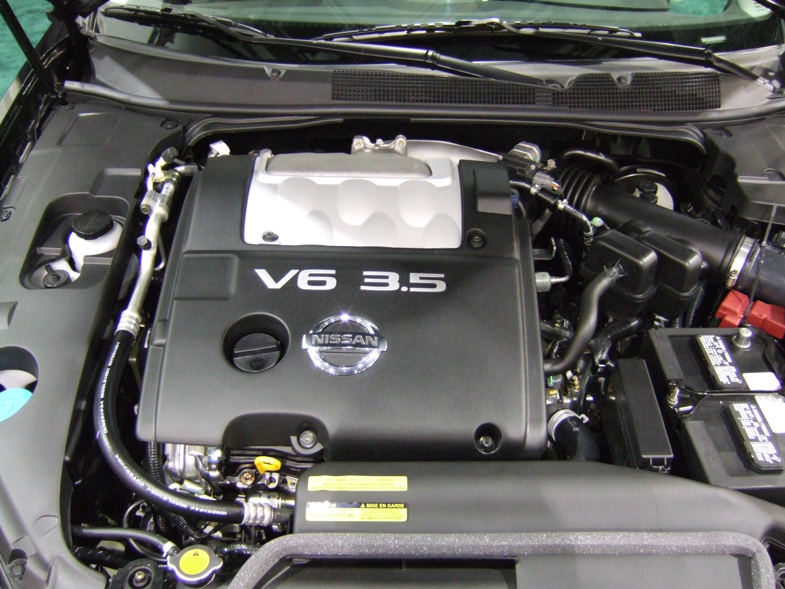 VQ35DE engine from a 2007 Nissan Maxima. Self made photo taken at the 2007 Columbus International Auto Show.